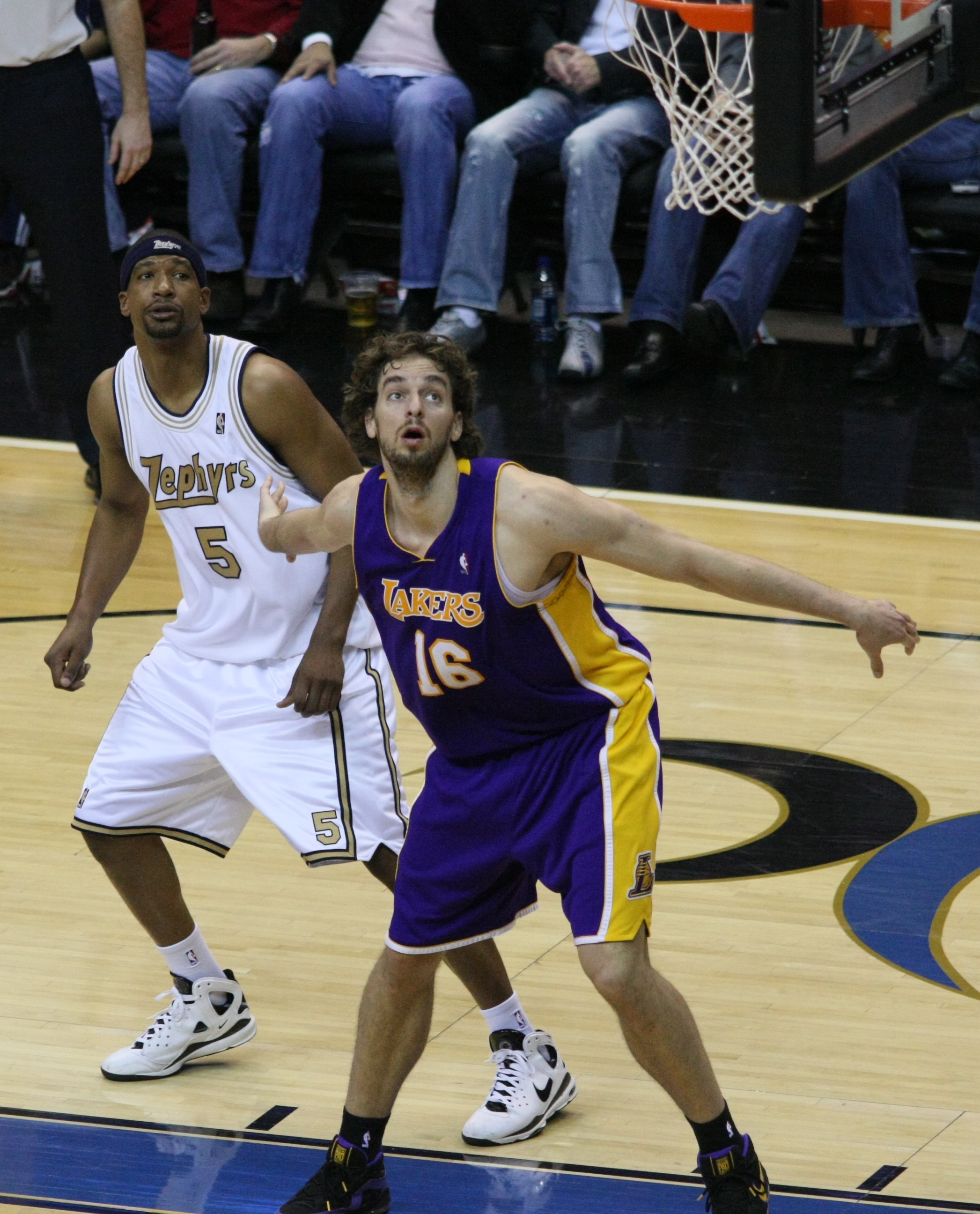 Pau Gasol playing with the Los Angeles Lakers